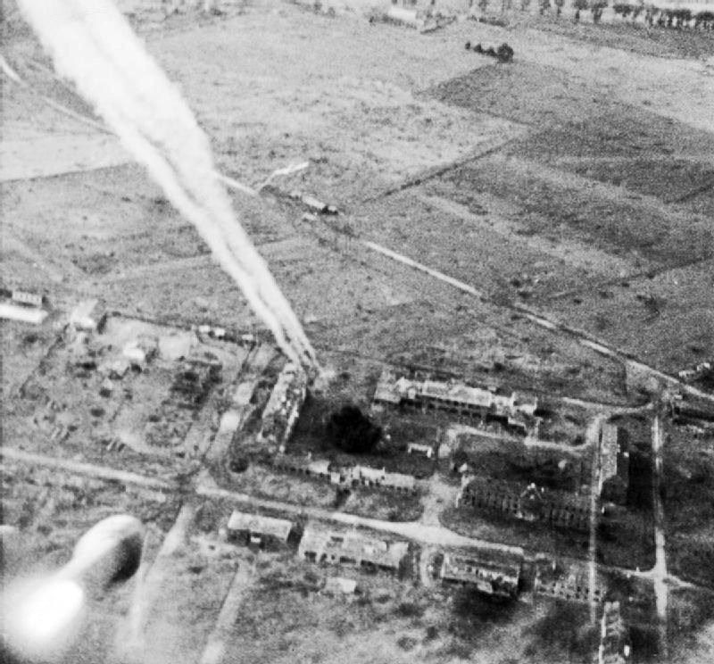 A rocket fired from a Typhoon of No 181 Squadron, Royal Air Force, on its way towards buildings at Carpiquet airfield during the battle for Normandy. The Canadian 3rd Division took Carpiquet to the west of Caen on 4 July.